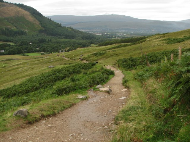 Ben Nevis Mountain Path Near the start of one of Britain's most popular hill routes. This path was always known as the "tourist route", but the local mountain rescue teams prefer to call it the Mountain Path to lend support to the idea that walking to the top of Ben Nevis is a serious proposition.